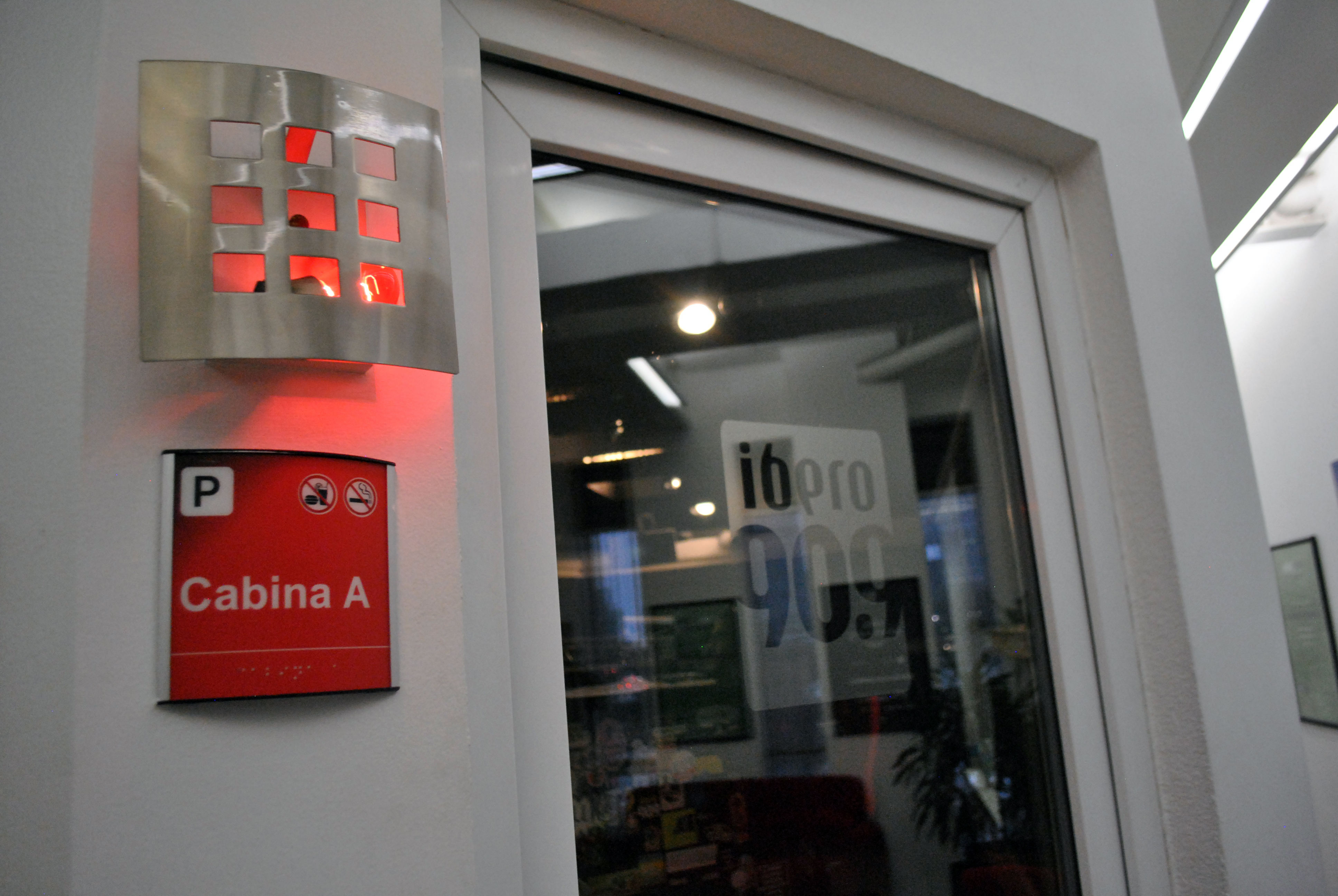 "Cabina A" (A Radio Booth) LF XHUIA-FM or Ibero 90.9, a FM Mexican radio station that has operated since 2002. It is sponsored by the Iberoamericana University, based in Mexico City.